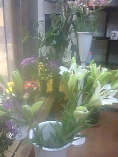 Bouquets in a custom shop in the center of the Libyan capital Tripoli